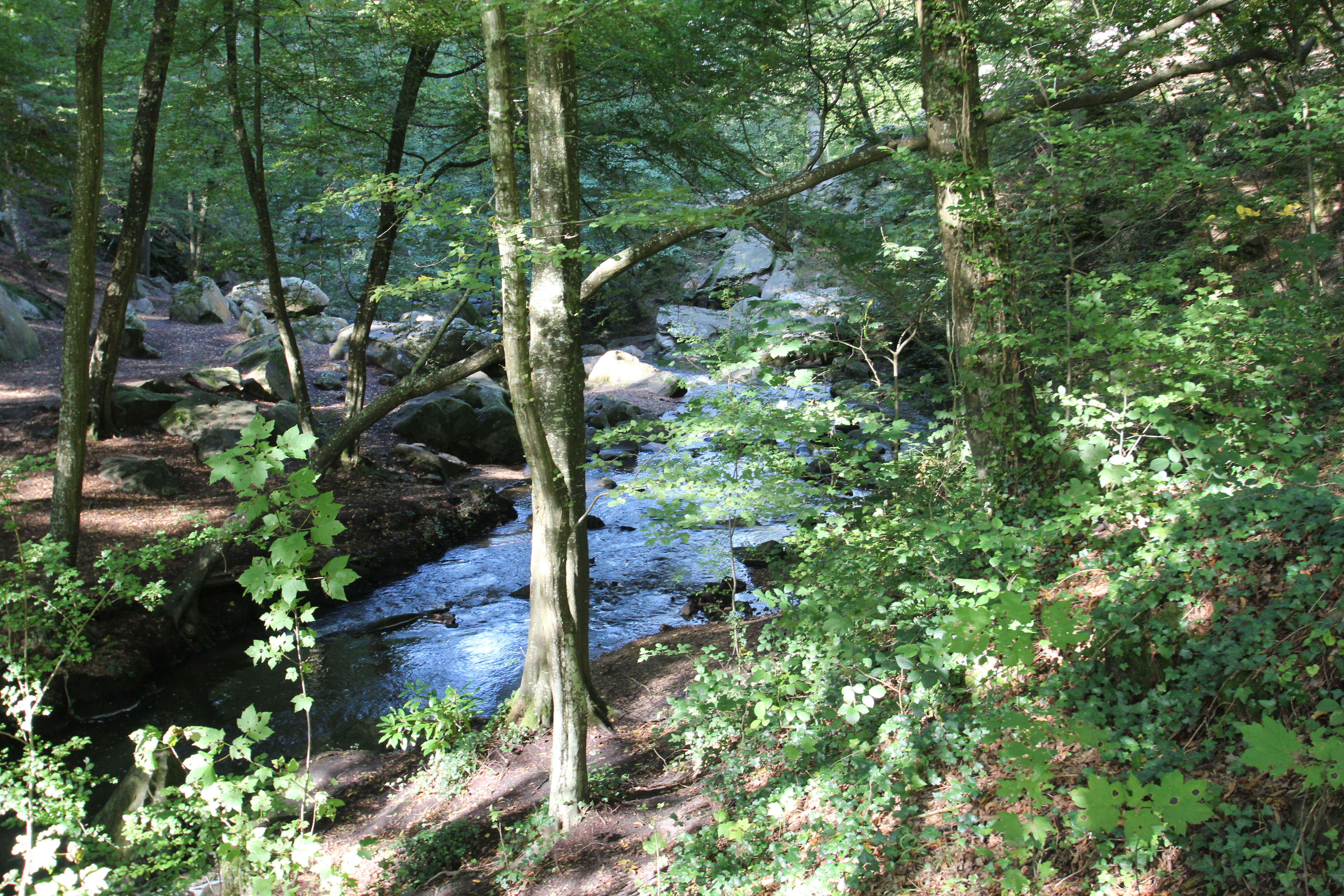 Petit Moulin des Vaux de Cernay museum in Cernay-la-Ville, France. Object location48° 40′ 39.22″ N, 1° 57′ 52.85″ E